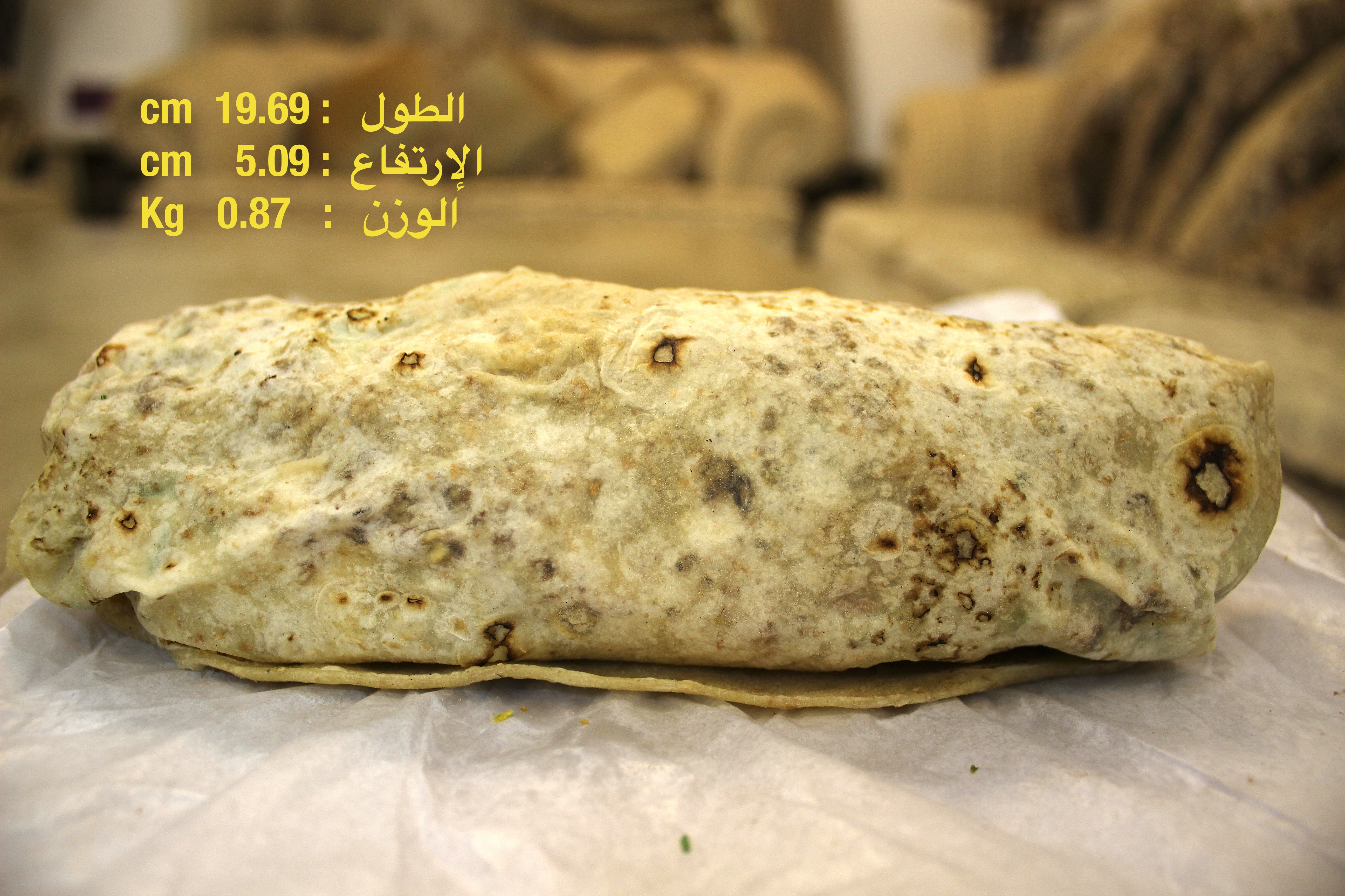 Sabbah